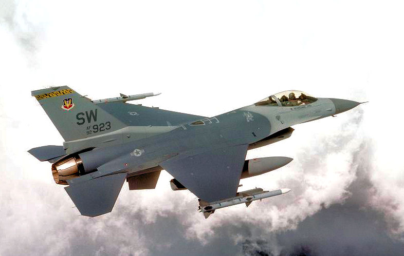 USAF F-16C block 50 #92-3923 from the 79th FS is flying over Colorado during the Tiger Meet of the Americas on August 11th, 2001. [USAF photo by SSgt. Greg L. Davis]